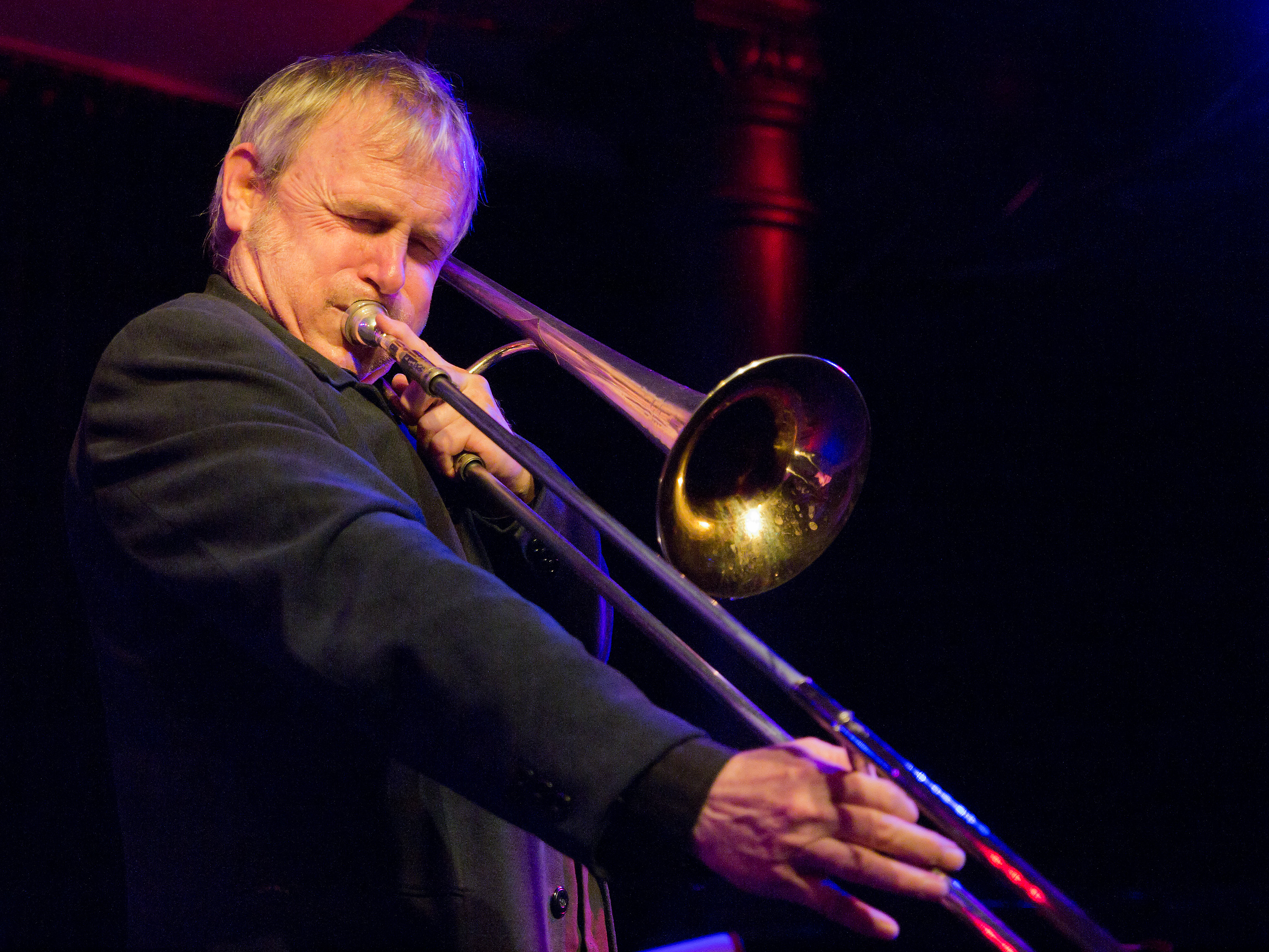 Marty Cook, Jazz trombonist; Picture taken in Jazz Club Unterfahrt, Munich/Bavaria